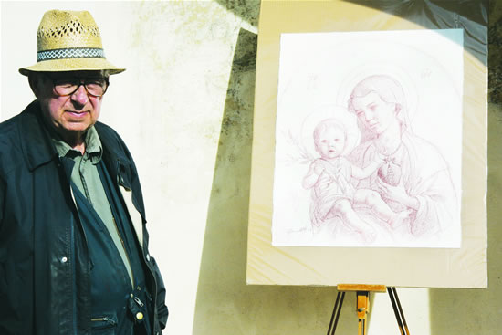 Giovanni Cifariello's "portrait of his father Alfredo Cifariello"